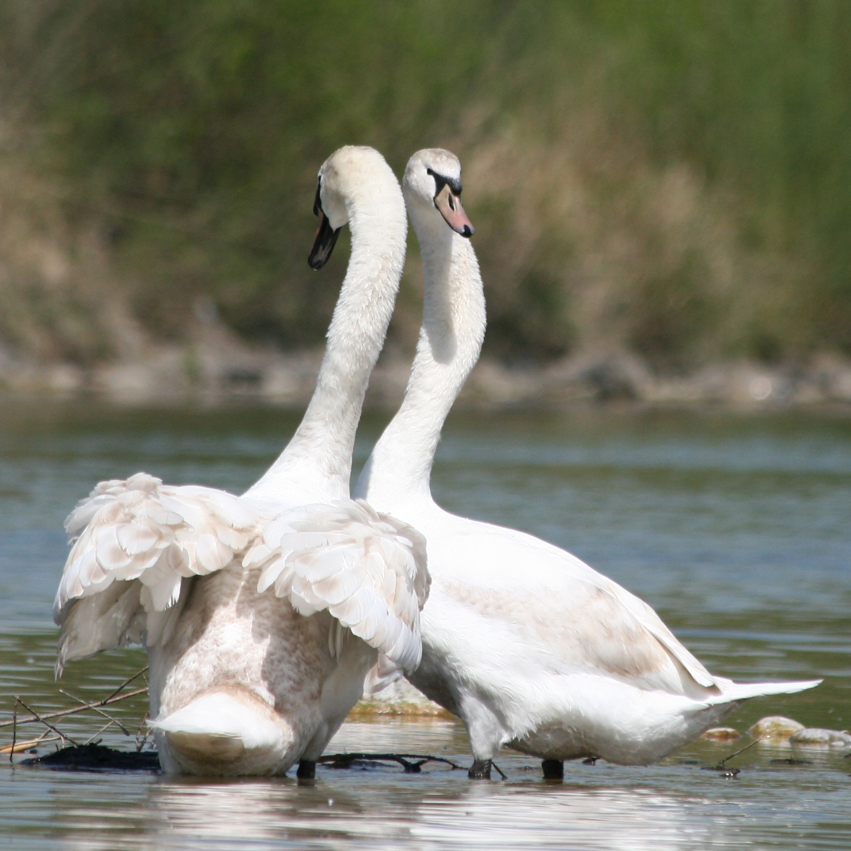 The Mute Swan (Cygnus olor[1]) is a common Eurasian member of the duck, goose and swan family Anatidae.